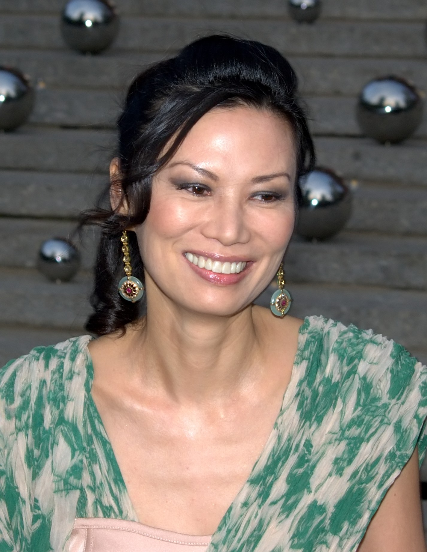 Wendi Murdoch at the 2010 Tribeca Film Festival.